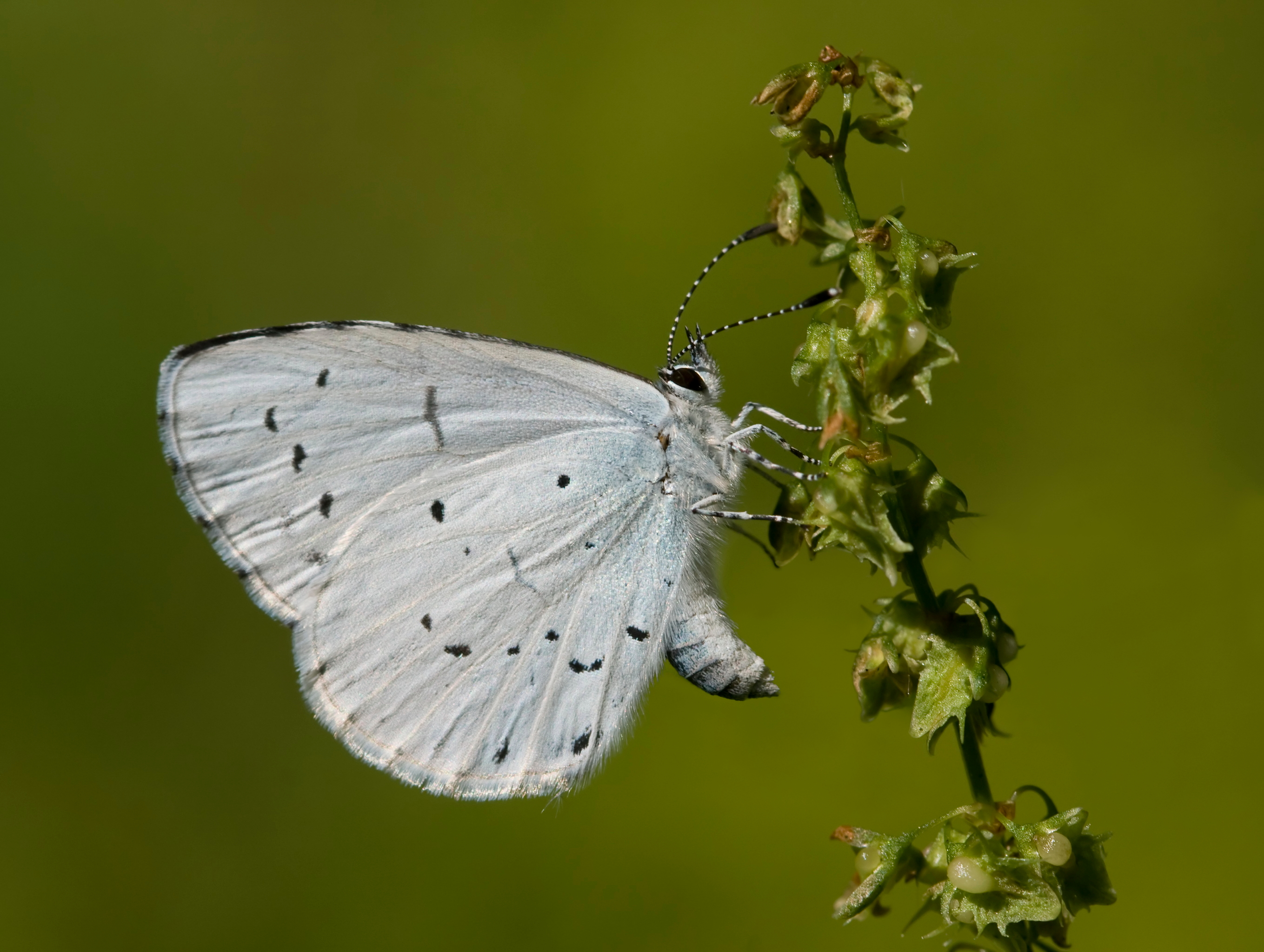 A female Holly Blue (Celastrina argiolus) in Otterndorf, northern Lower Saxony, Germany.